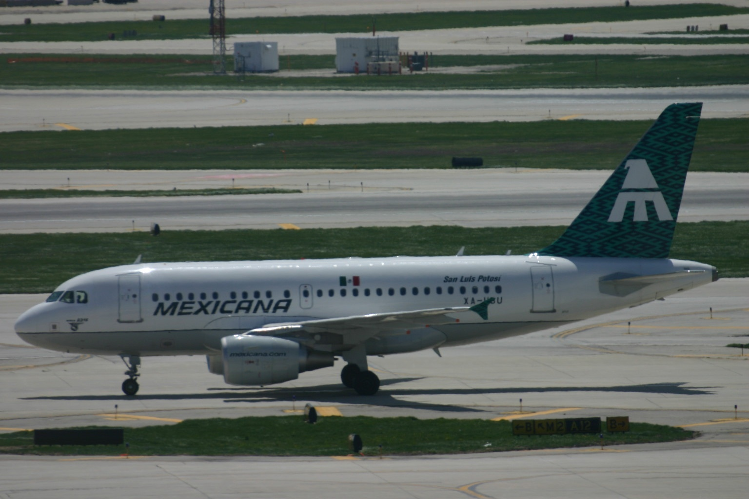 At Chicago O'Hare